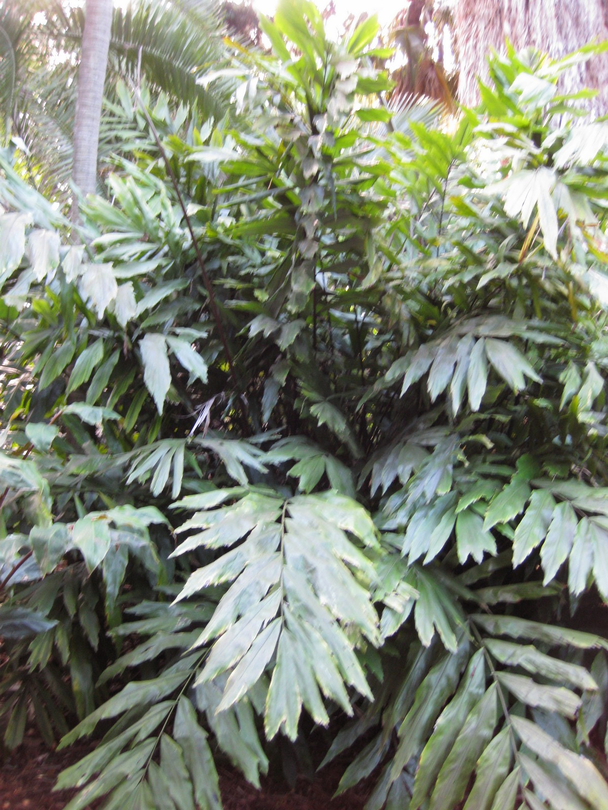 Photographed at the Royal Botanic Gardens Sydney (Australia) in December